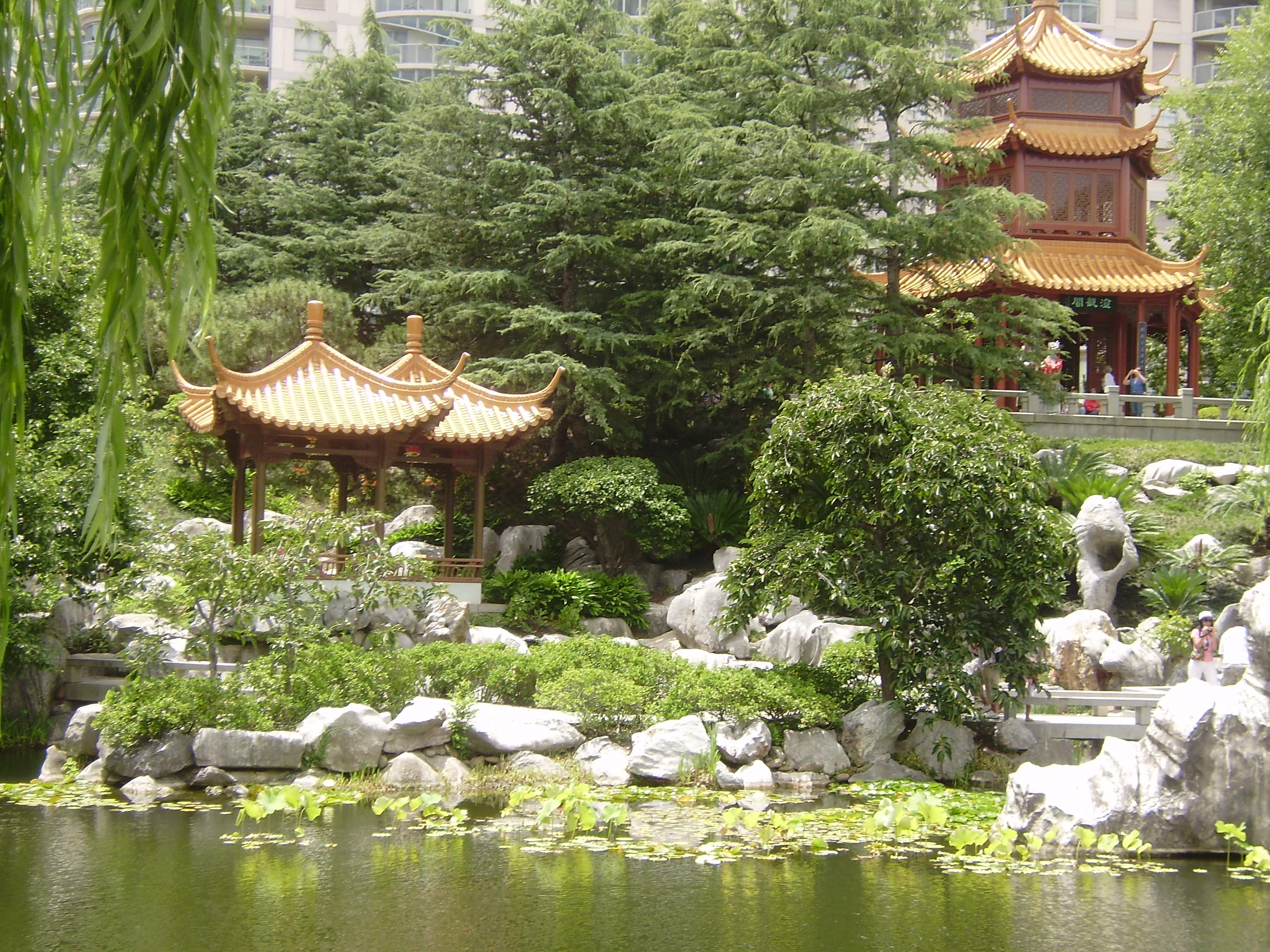 Chinese Garden of Friendship